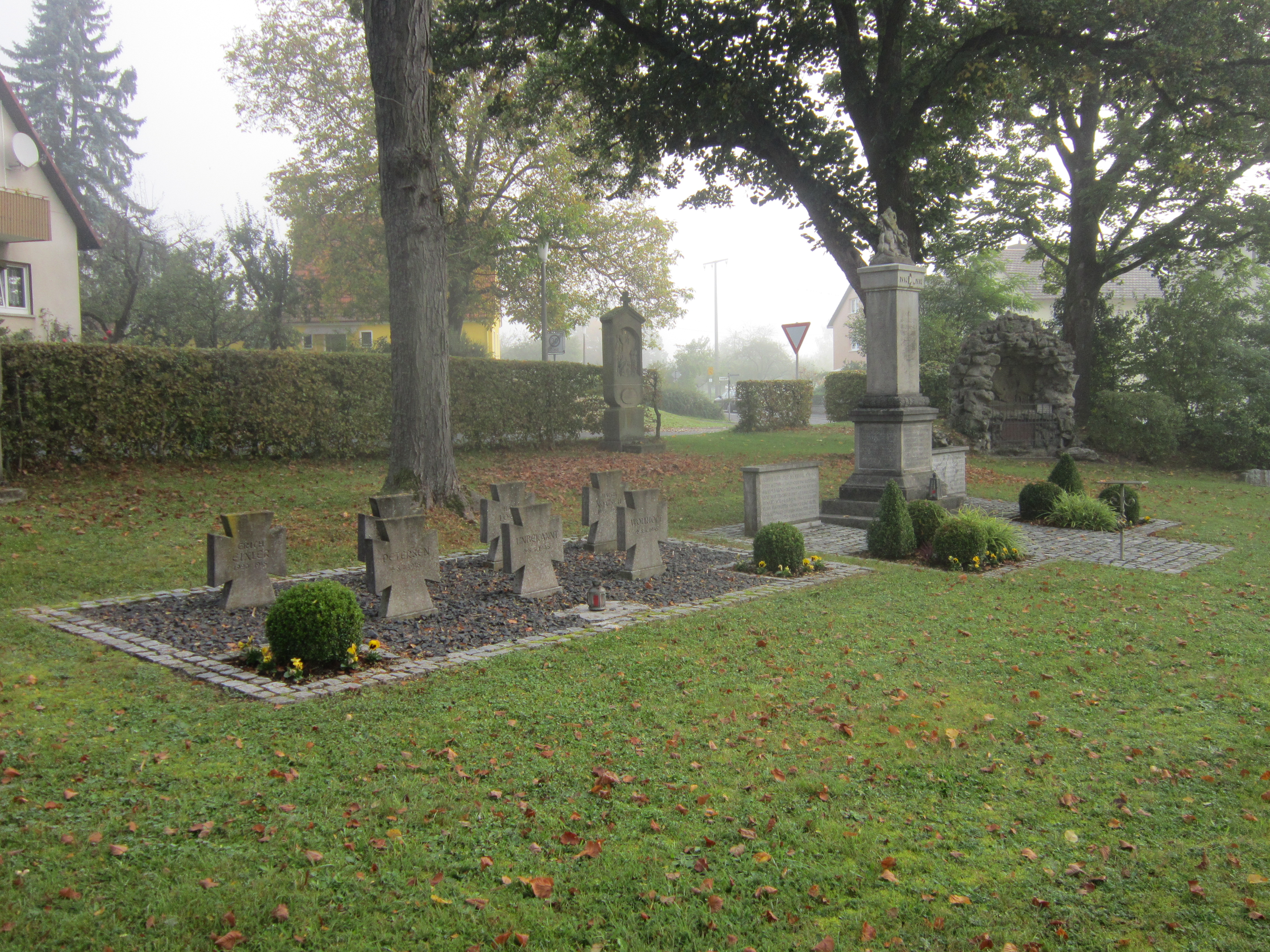 War memorial belonging to the Stations of the Cross in Großenbrach, a quarter of the German spa town of Bad Bocklet in Lower Franconia (Bavaria).